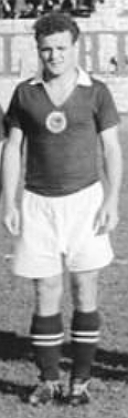 Title: Dynamo Berlin - Wismut Karl-Marx-Stadt 2:1, Mannschaftsfoto Factual corrections and alternative descriptions are encouraged separately from the original description. Additionally errors can be reported at this page to inform the Bundesarchiv. Original historic description: Konrad Wagner, 1956